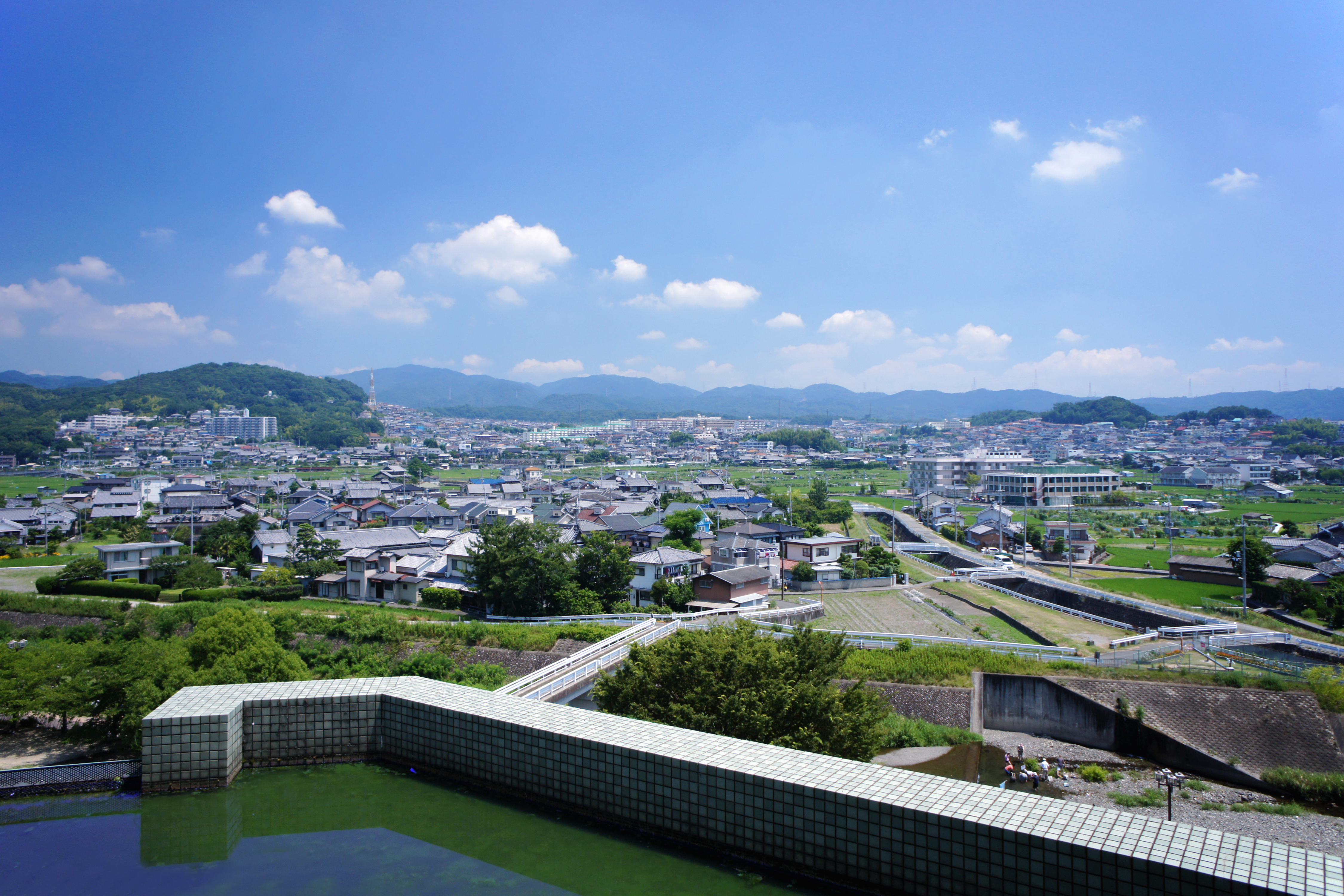 Aquapia Akutagawa in Nanpeidai 5-chome, Takatsuki, Osaka prefecture, Japan.